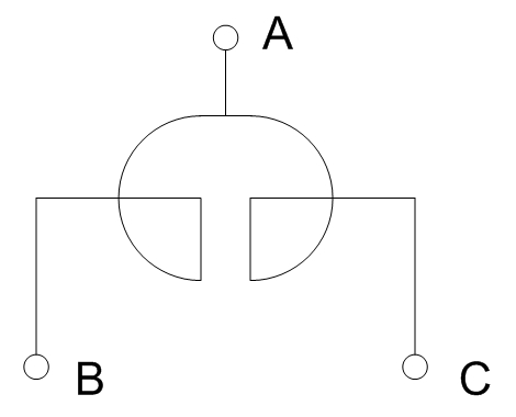 Electrical symbol of duplex reactor.